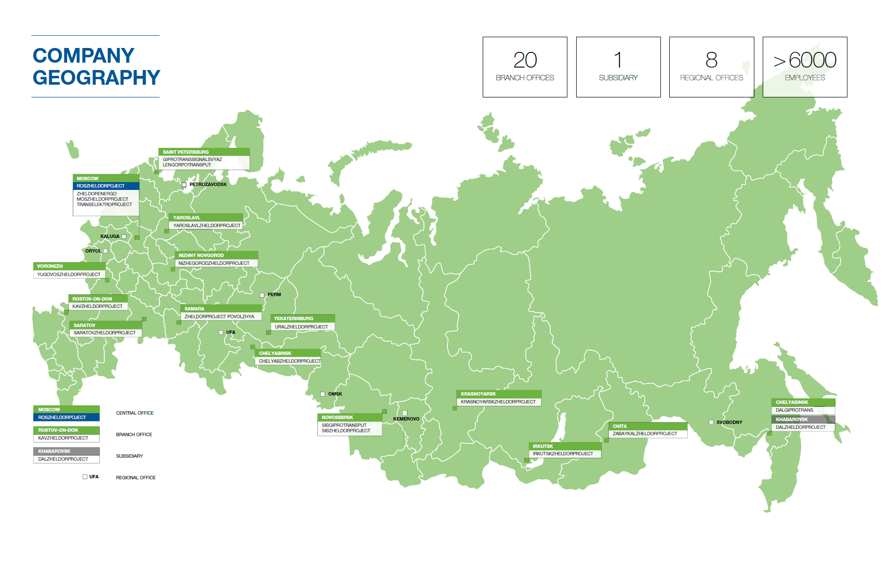 English map of JSC roszheldorproject